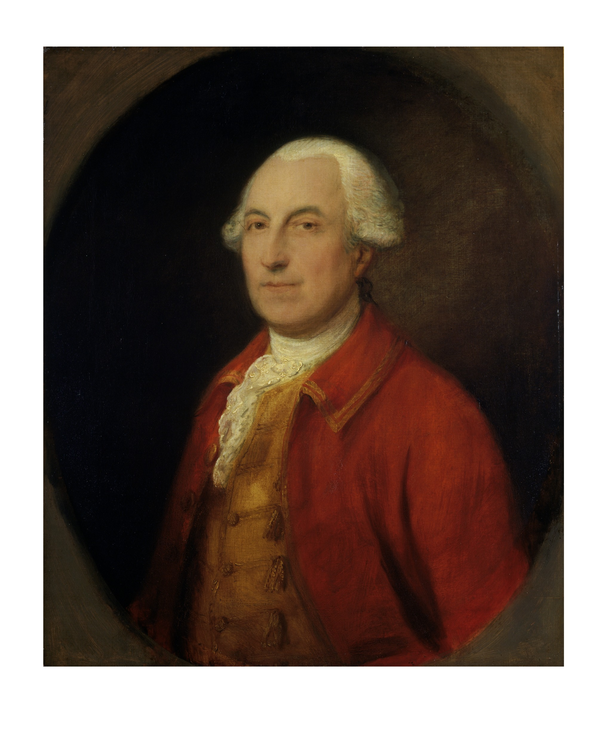 Bust length portrait of John Purling (1722-1800), in an oval. John Purling was a director of the East India Company. He was a candidate in the notoriously corrupt Shoreham Election of 1770, and was elected an MP in 1772. Gainsborough moved to London in 1774. The lively brushwork of this portrait is typical of his late style. At this time, his usual fee for such a portrait was £31 10s. The subject is John Purling. He was a director of the East India Company and was elected an MP in 1772.